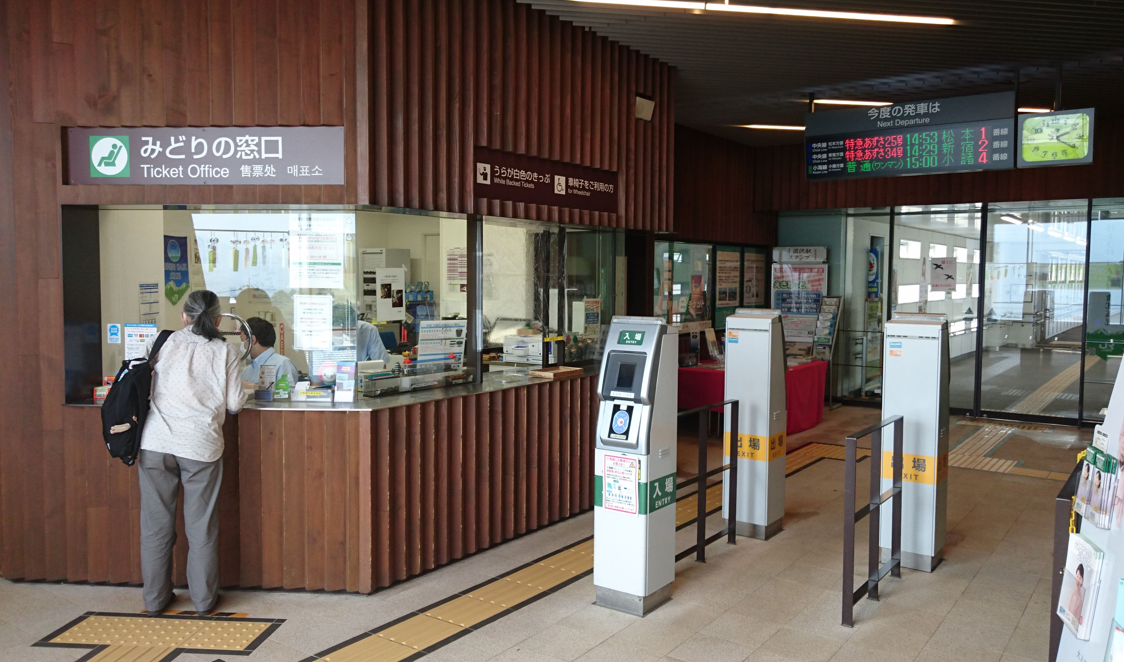 Ticket barrier of Kobuchizawa Station